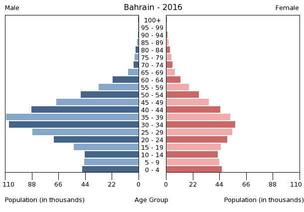 The population pyramid of Bahrain illustrates the age and sex structure of population and may provide insights about political and social stability, as well as economic development. The population is distributed along the horizontal axis, with males shown on the left and females on the right. The male and female populations are broken down into 5-year age groups represented as horizontal bars along the vertical axis, with the youngest age groups at the bottom and the oldest at the top. The shape of the population pyramid gradually evolves over time based on fertility, mortality, and international migration trends.